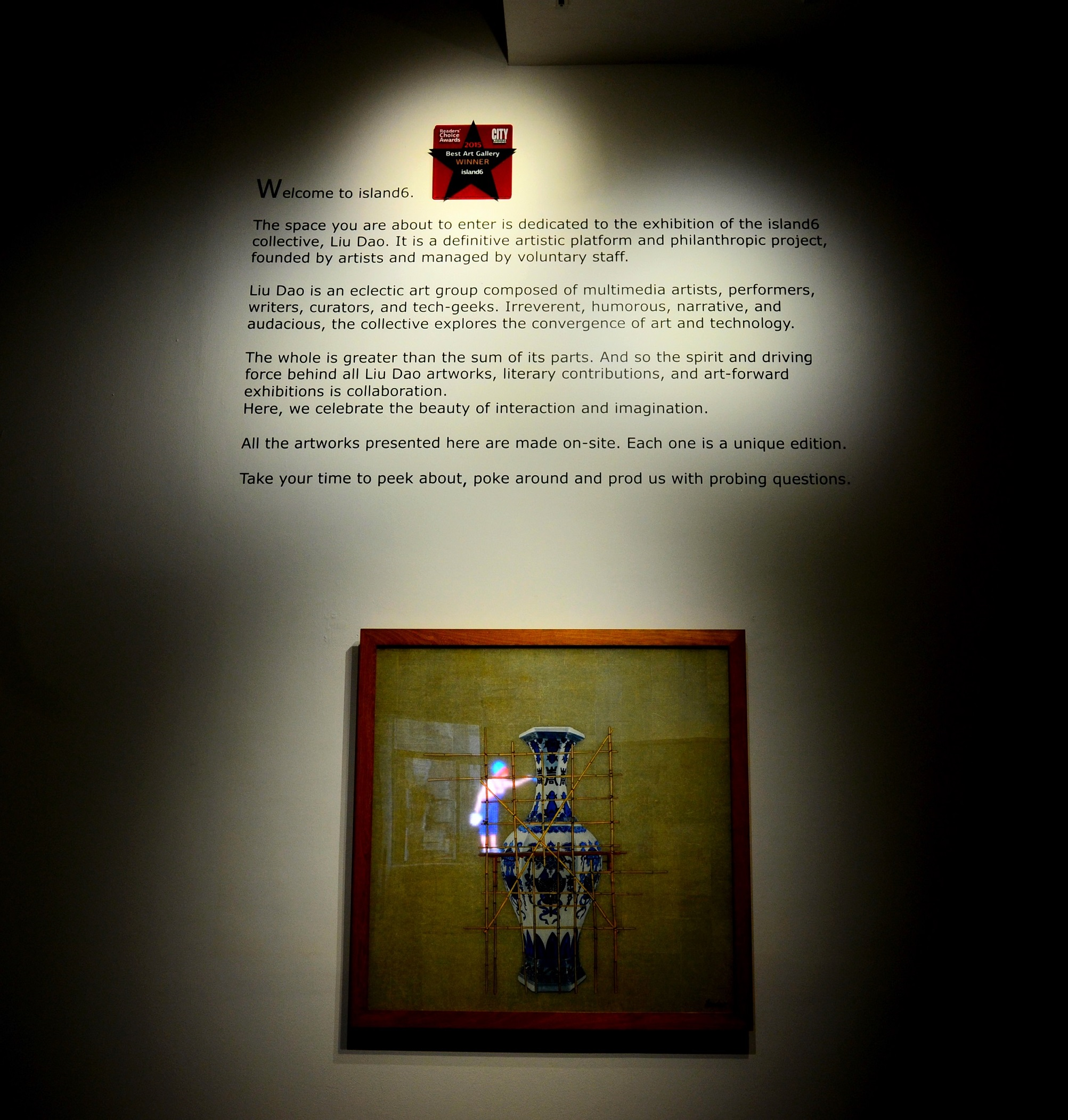 island6 The Main Gallery